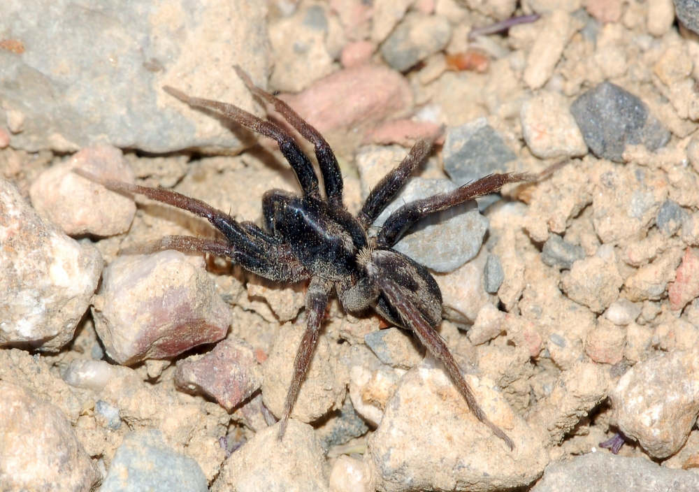 Alopecosa albofasciata, det. Detlev Cordes, Avene, Languedoc-Roussillon, France